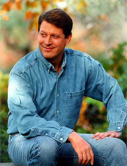 Al Gore, circa 2000.